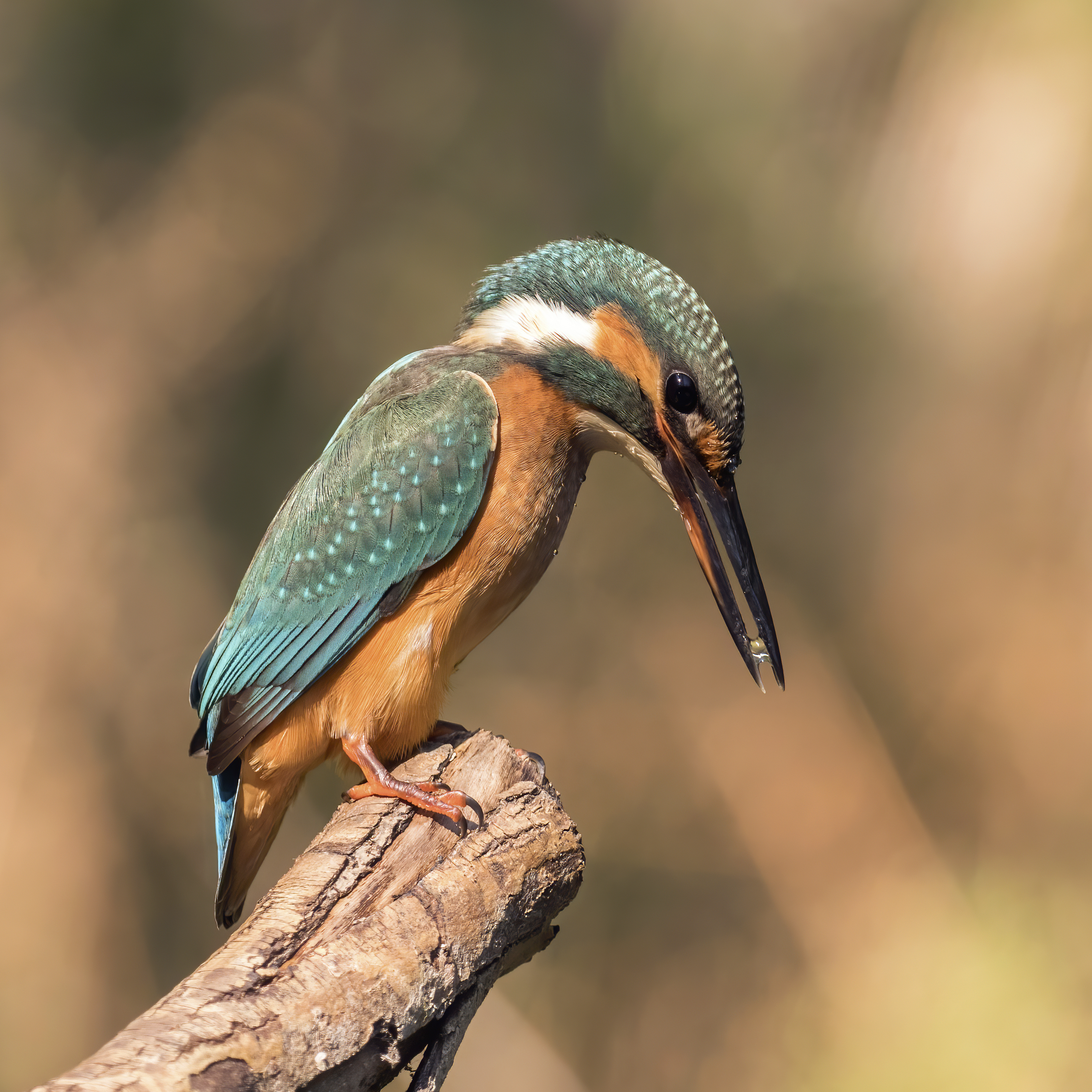 Common kingfisher (Alcedo atthis ispida) female, Kondor Tanya, near Kecskemét, Hungary